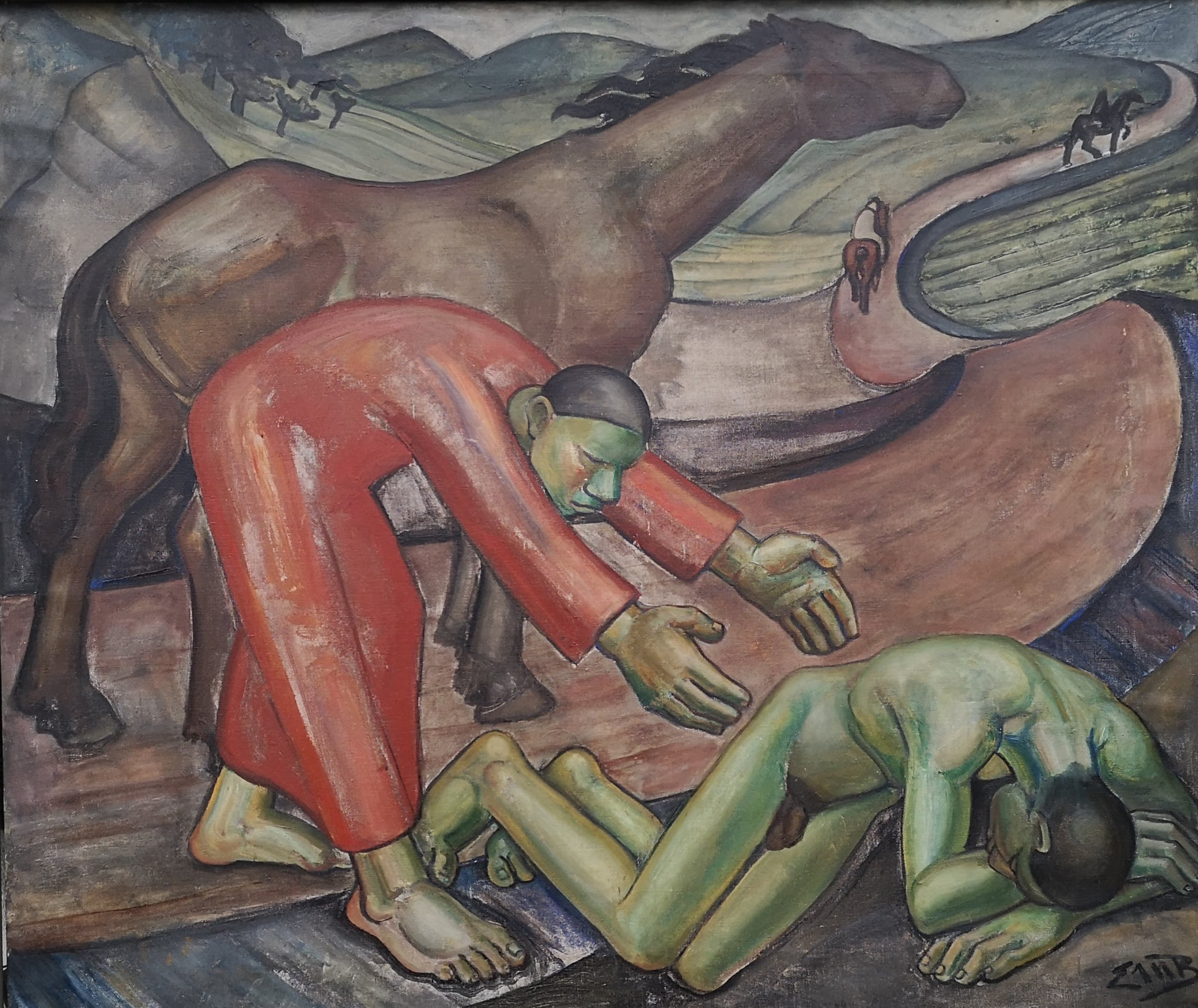 'The Good Samaritan' ('Parable of the Good Samaritan') – Technique : Oil on canvas